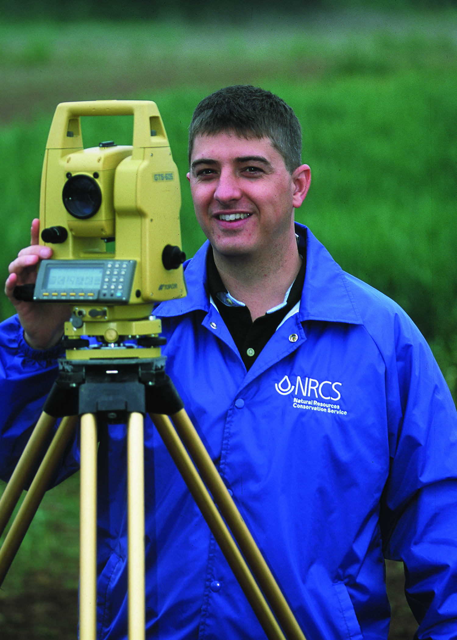 District Conservationist Dana Ernst surveying grassed waterway in Virginia.